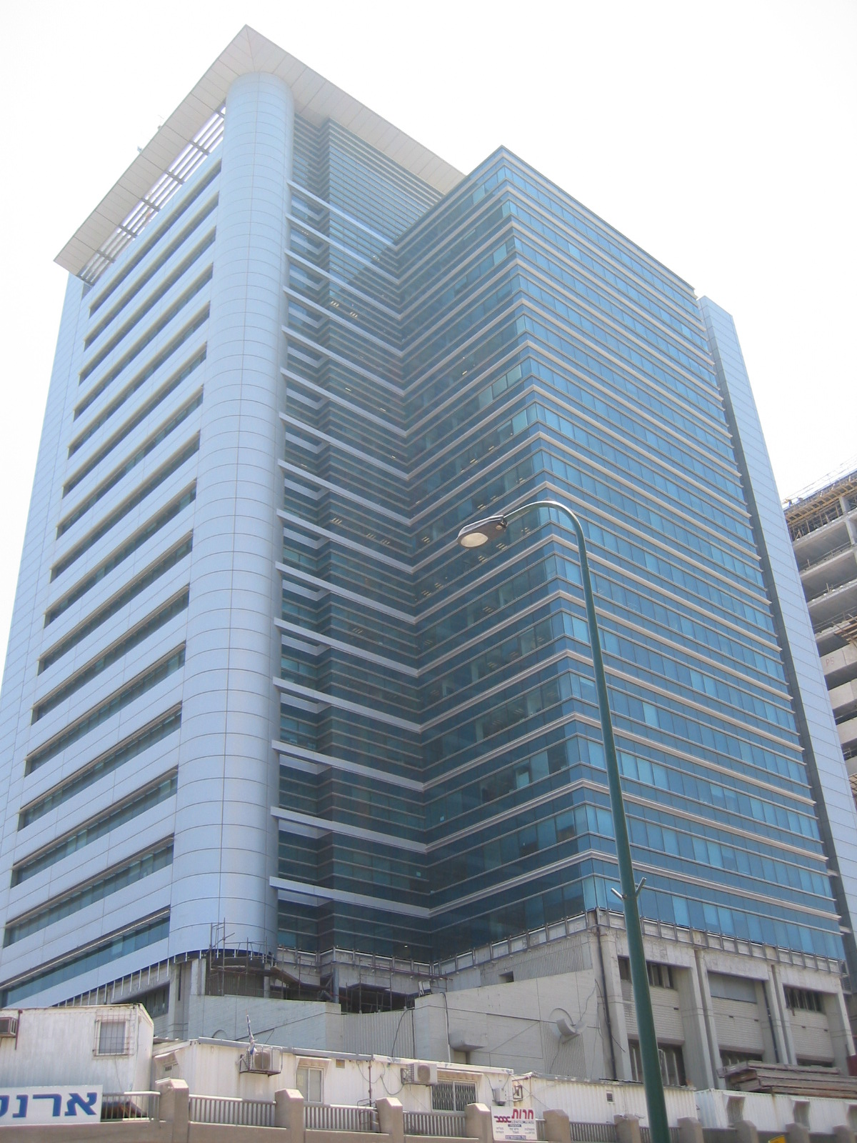 Tower in the Kirya, Tel Aviv